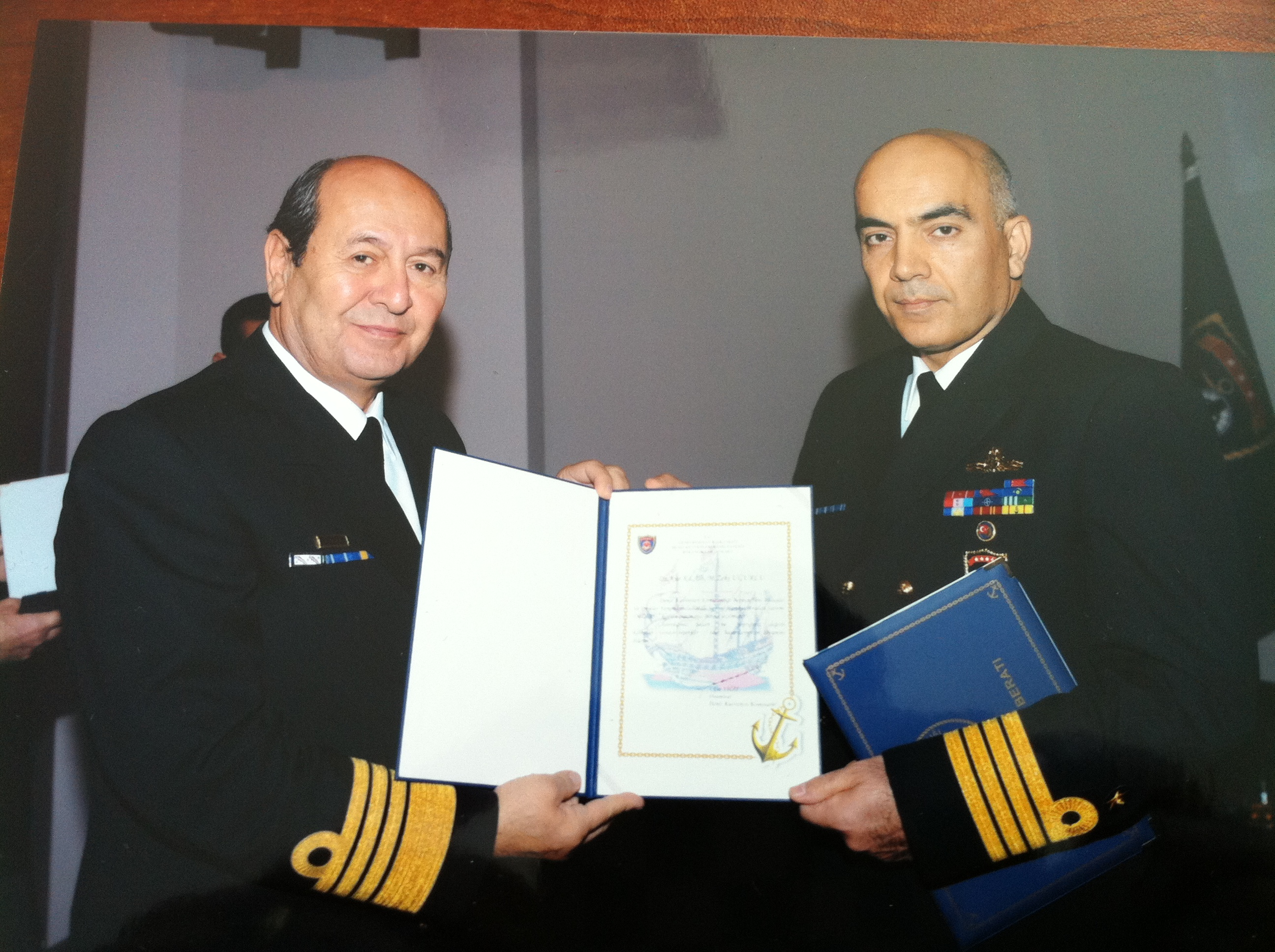 Admiral Ugurlu having his award for becoming the first at Navy-wide Innovative Research Project Competition from Admiral Yigit,Chief of Navy